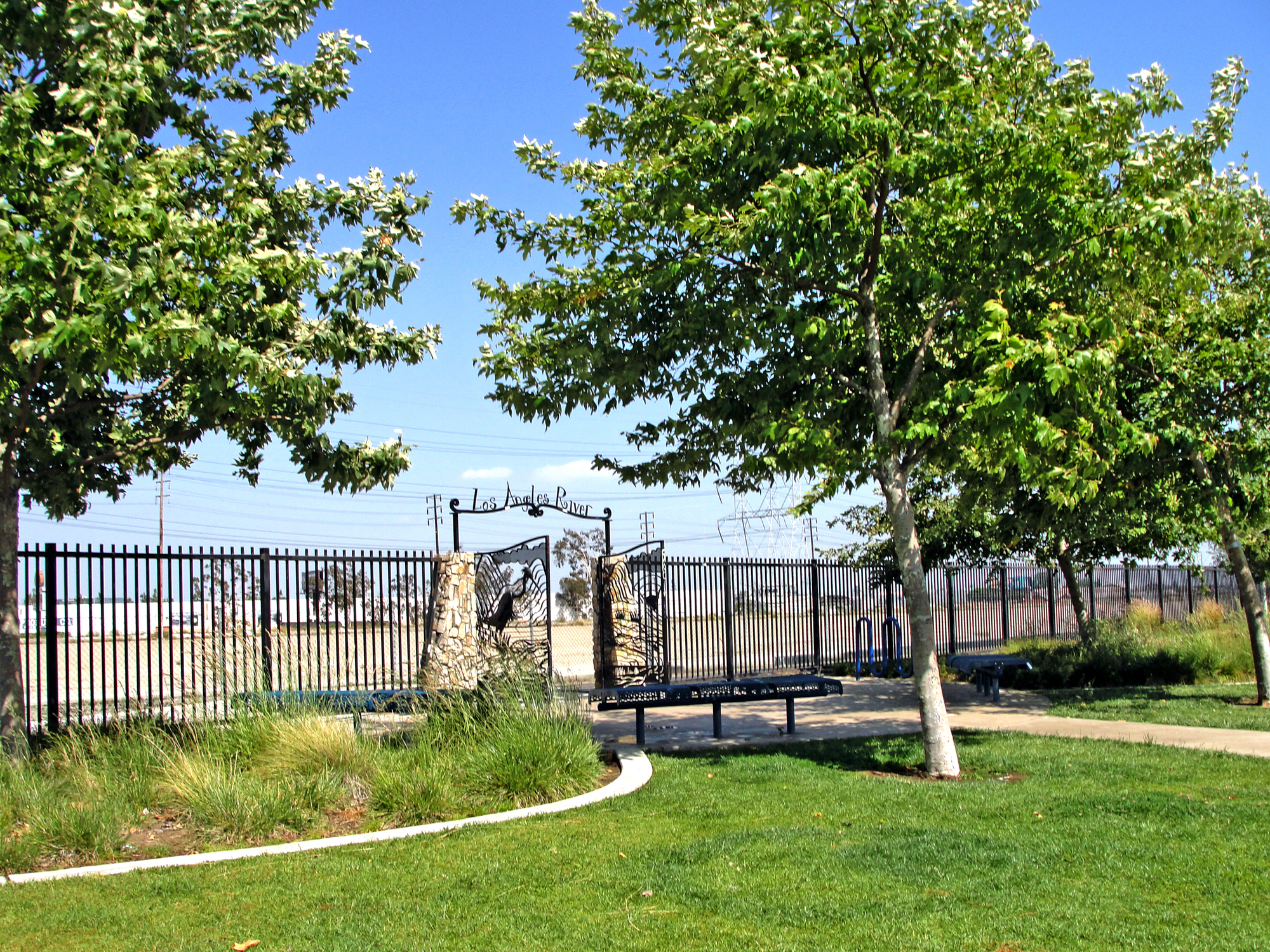 Maywood Riverfront Park- in Maywood, Los Angeles County, Southern California. Adjacent to the Los Angeles River and Los Angeles River bicycle path. California Sycamores (Platanus racemosa) - a native riparian tree, are replanted here near the river.